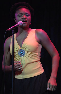 Jazz singer Lizz Wright